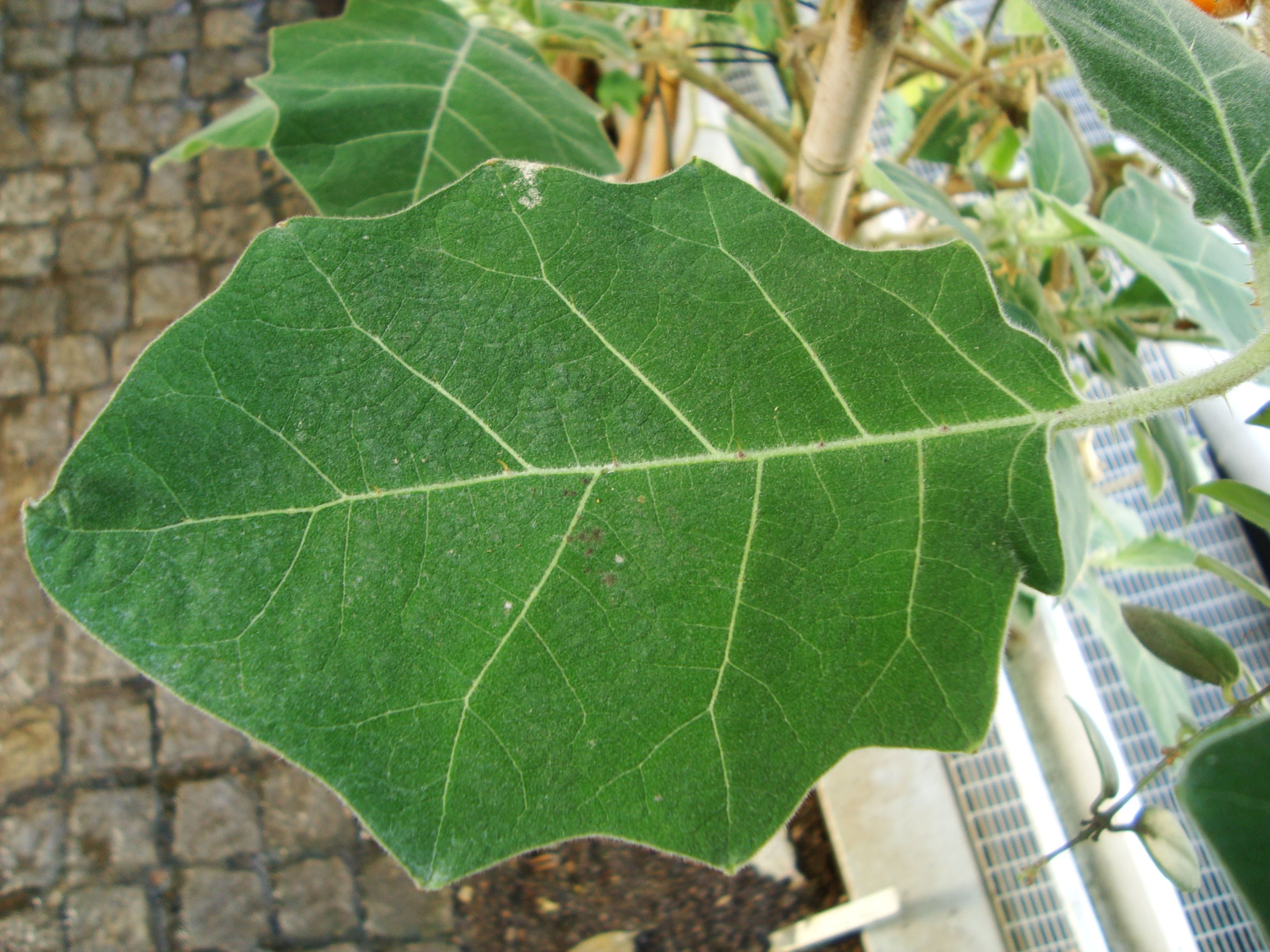 Solanum pseudolulo, leaf (botanical garden, Graz Austria)